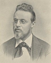 Portrait of Danish Author Otto Martin Møller